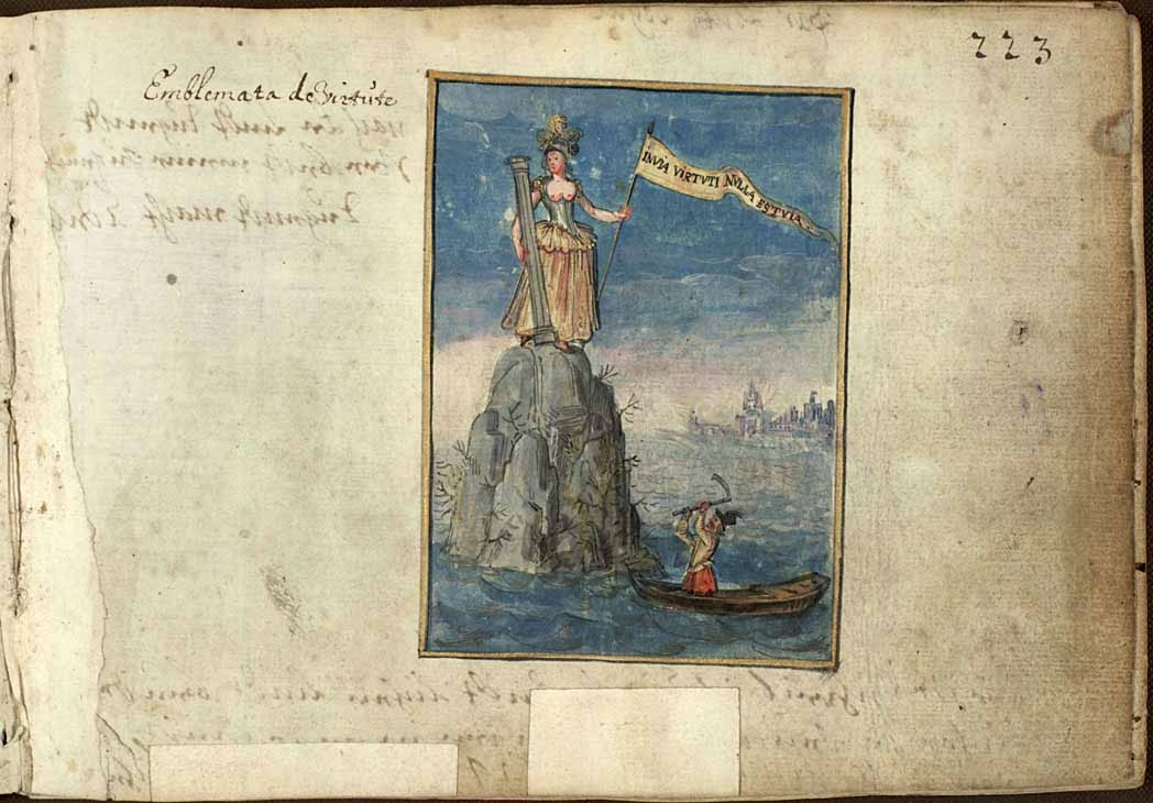 Edinburgh University Library Special Collections December 2006 January 2007 Michael van Meer, Album Amicorum, (or Stam Boek, Stamboek, Stammbuch, book of friends) 17th century Michael van Meer (Antwerp, ca. 1590 - Hamburg, October 13 1653) Album started 1613, ended 1648 527 pages, 774 contributions (entries) More information about the Van Meer Album in RAA REPERTORIVM ALBORVM AMICORVM Internationales Verzeichnis von Stammbüchern und Stammbuchfragmenten in öffentlichen und privaten Sammlungen Department Germanistik und Komparatistik, Friedrich-Alexander-Universität Erlangen-Nürnberg